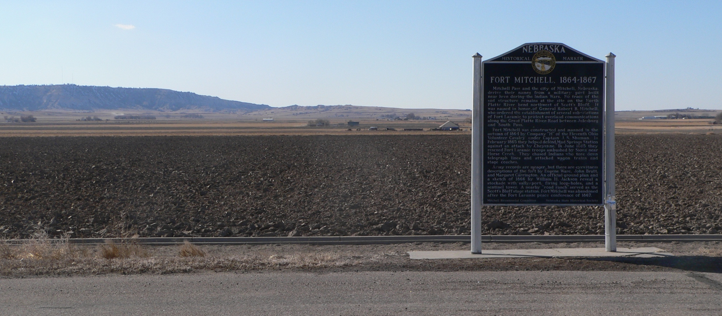 Nebraska historical marker on Nebraska Highway 92, commemorating the 1860s Fort Mitchell. Camera is facing generally west-southwest.